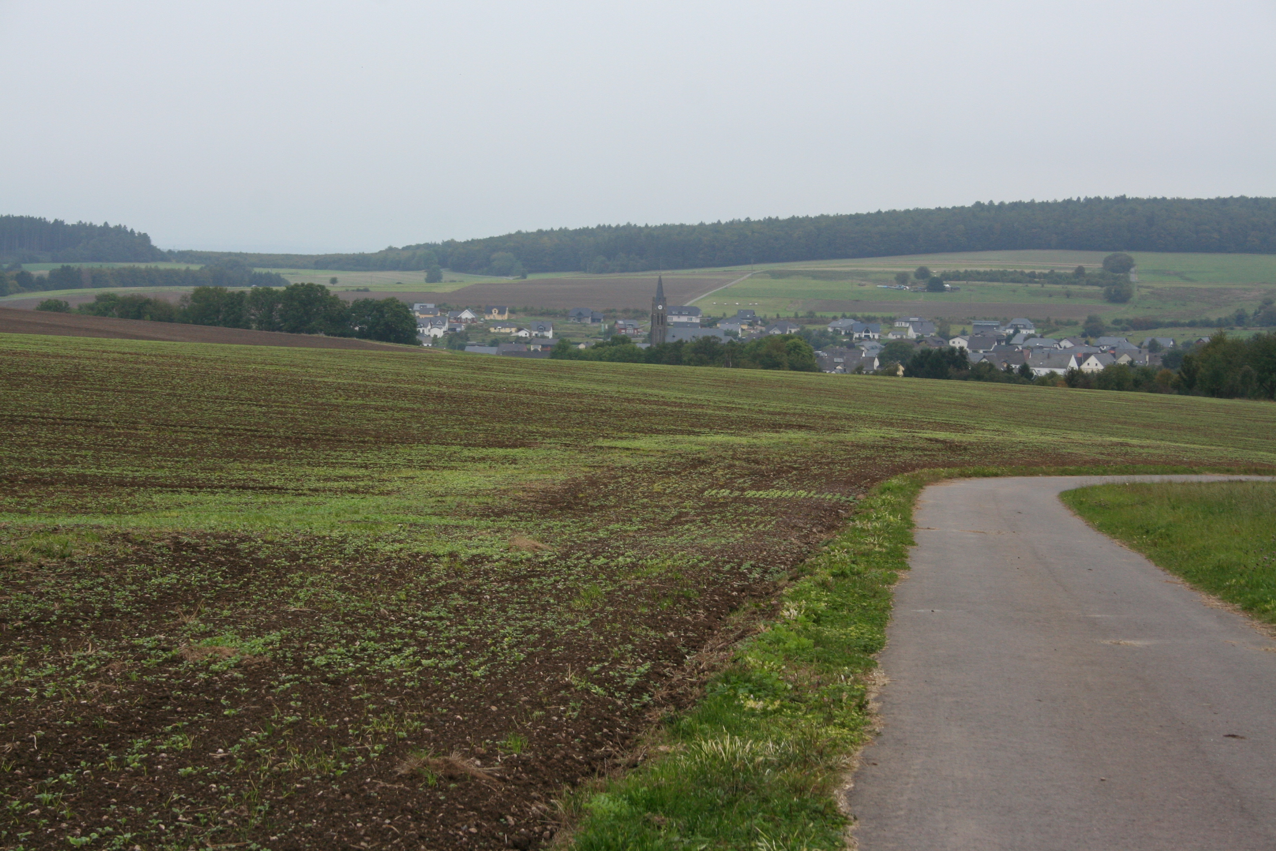 Morbach-Gonzerath, Germany